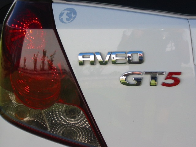 GT5 EMBLEM